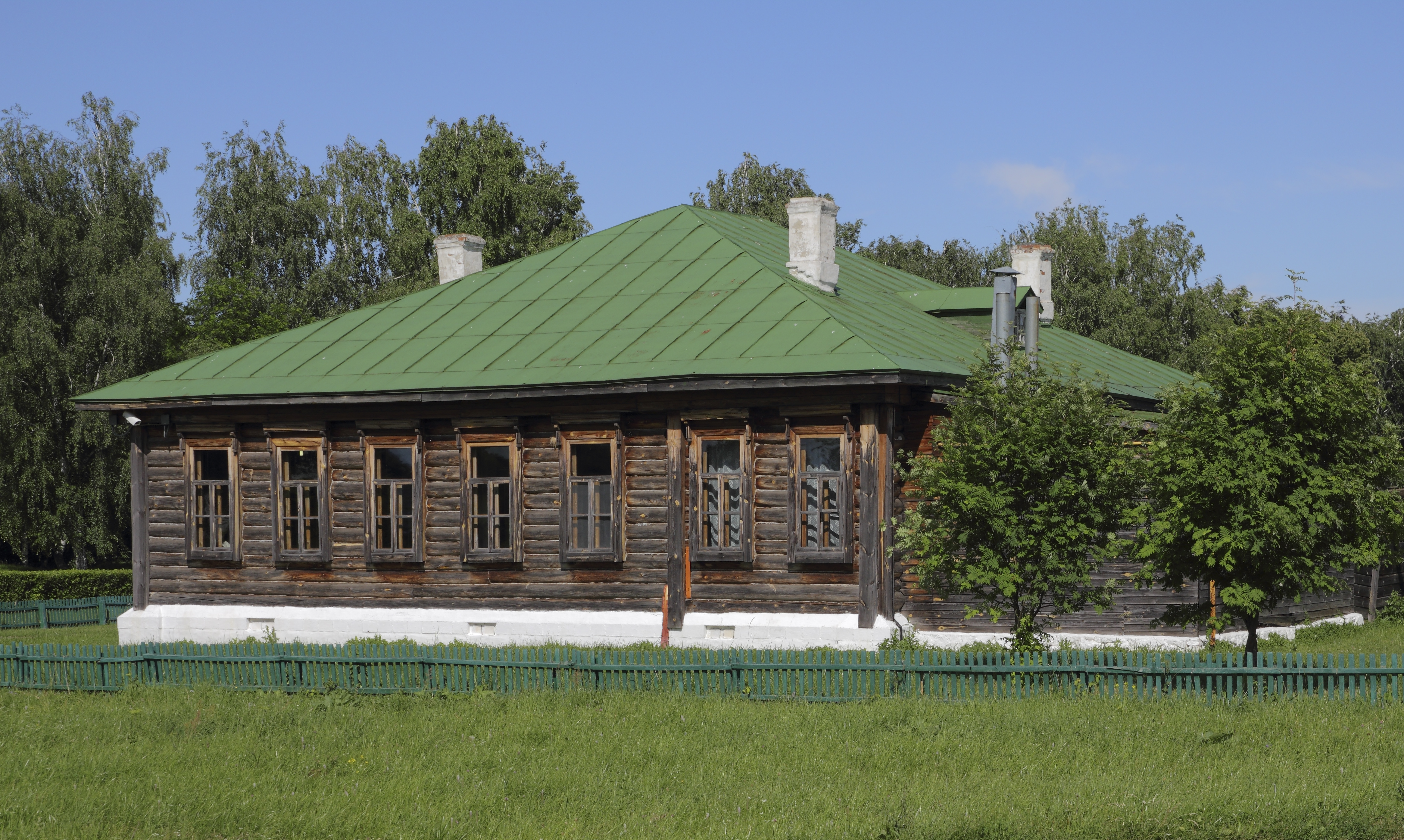 Former zemstvo school in Konstantinovo village, Ryazan Oblast, Russia